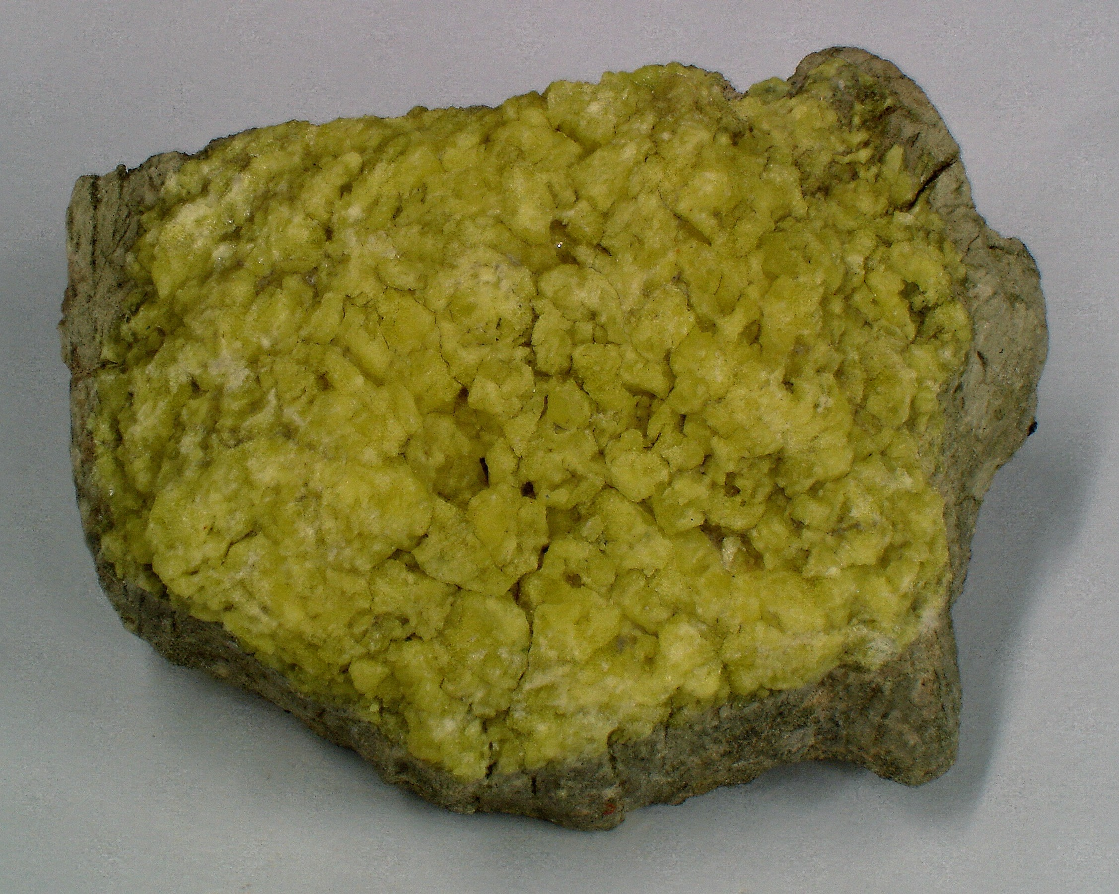 Native sulfur from the Osamu Utsumi mine. Poços de Caldas, Minas Gerais, Brazil.] Collected by Rodrigo Soares de souza Sample size: 5 x 5 cm Pictures taken by Eurico Zimbres Free for all use Sa